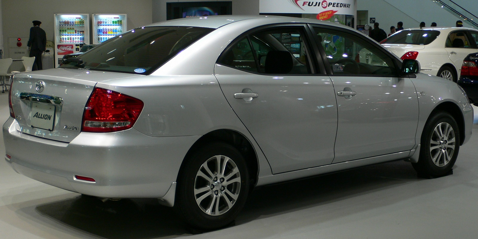 Toyota_Allion(2004) photographed in MEGAWEB.